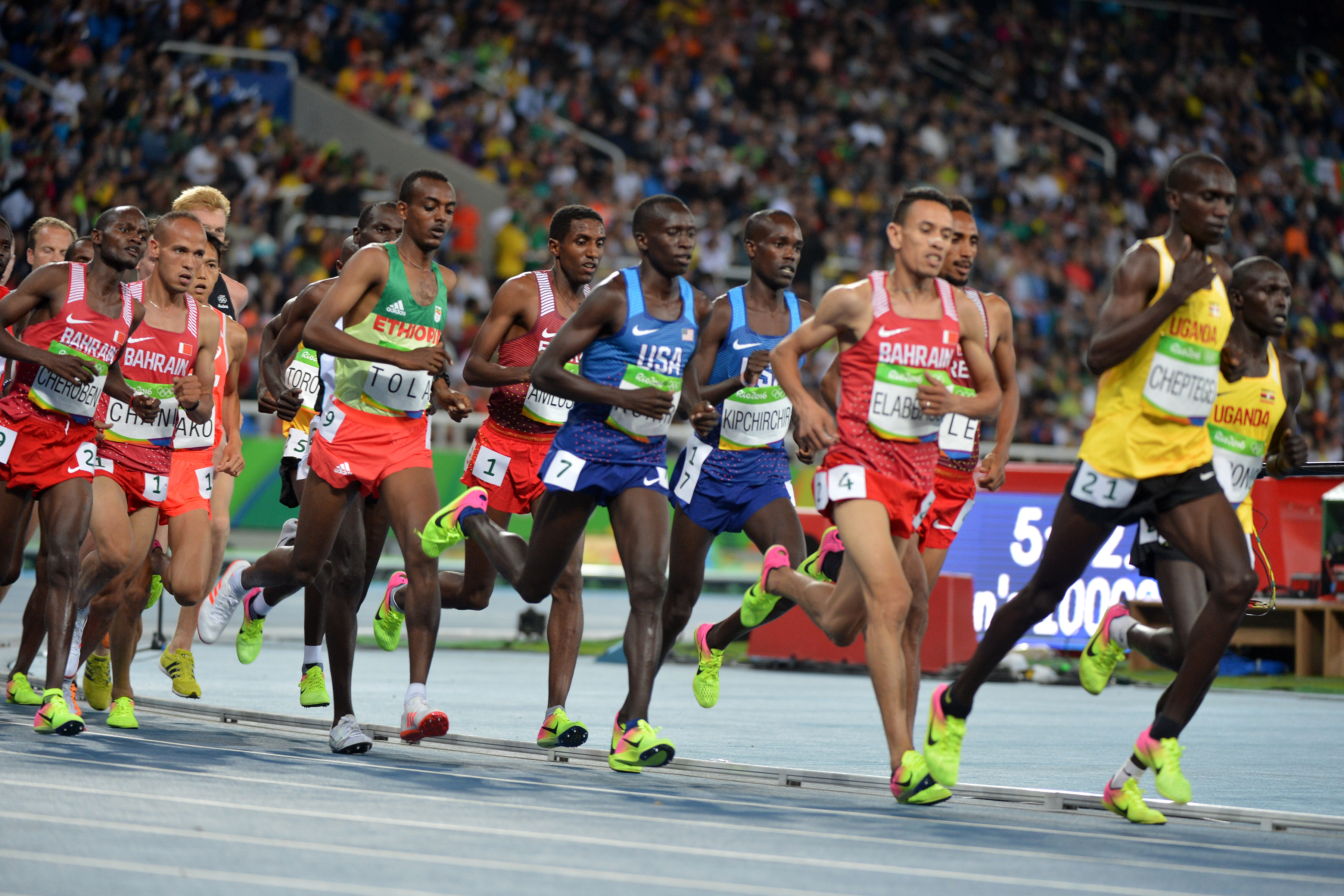 Spcs. Leonard Korir and Shadrack Kipchichir finish 14th and 19th respectively in the men's 3,000-meter run Aug. 13 at the 2016 Rio Olympic Games in Rio de Janeiro. Both Soldiers in the U.S. Army World Class Athlete Program turned in their season-best performaces, with Korir finishing in 27 minutes, 58.65 seconds and Kipchirchir clocked at 27:58.32. Mohamed Farah of Great Britain successfully defended his Olympic crown by winning the race in 27:05.17. Paul Kipnetech Tanui of Kenya took the silver in 27:05.64, and Tamirat Tola of Ethiopia claimed the bronze in 27:06.27.